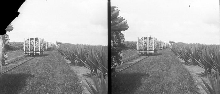 Agave harvesting with railcars, Kediri, East Java